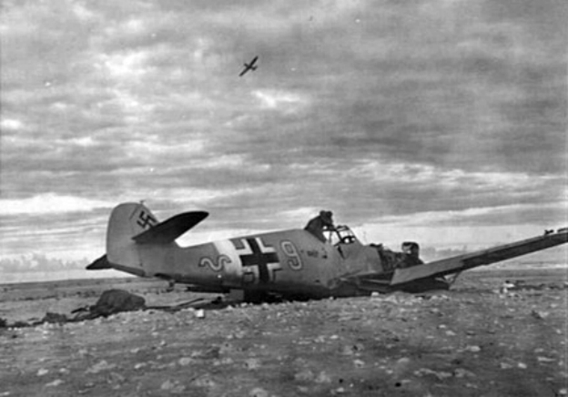 A damaged German Messerschmitt Me 109F, yellow 9 of III/JG27 at Daba, Egypt, in November 1942. An RAF Hawker Hurricane flying overhead.